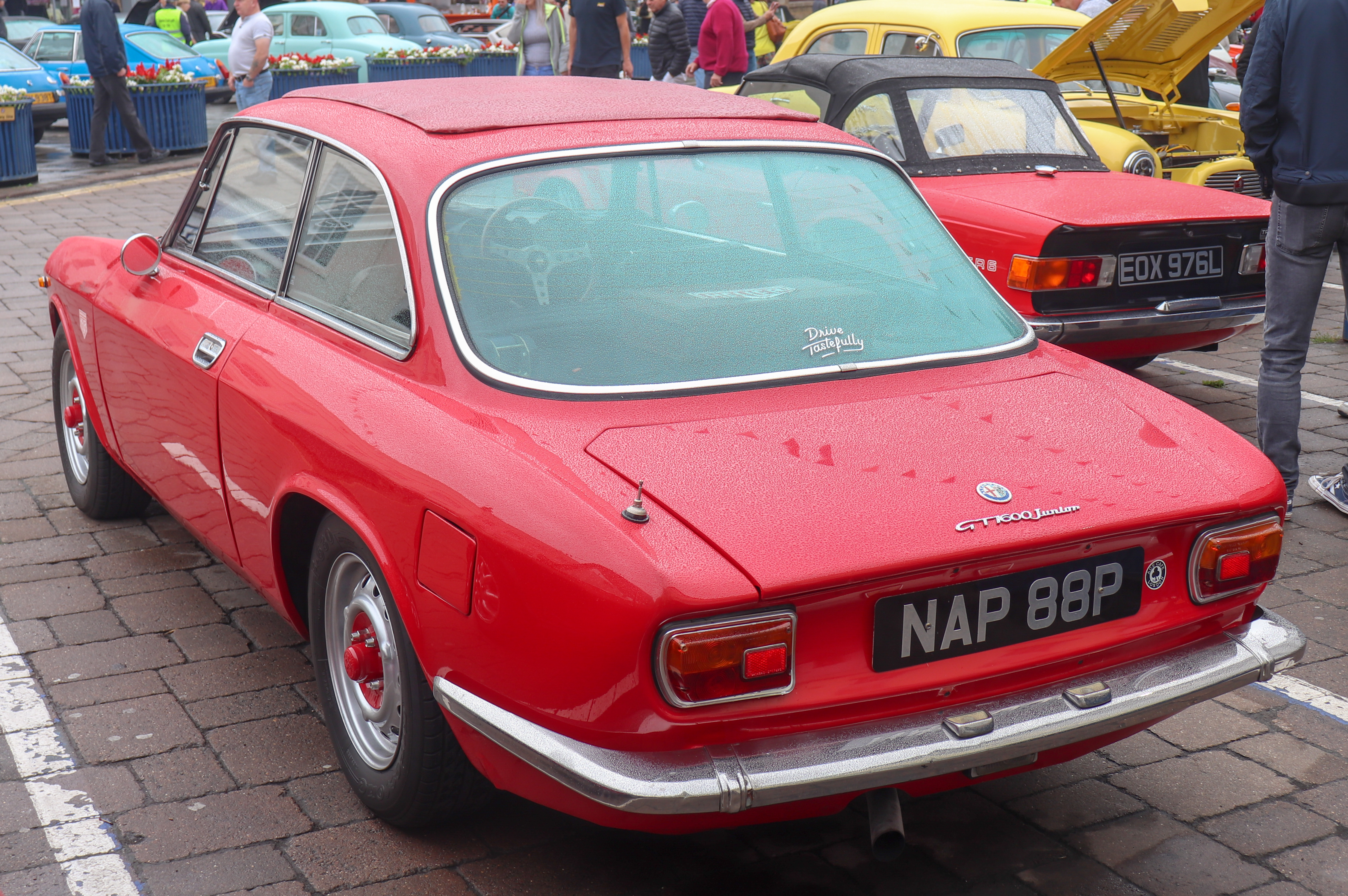 1976 Alfa Romeo GT 1600 Junior Rear Taken at the 2018 Warwick Classic Car Show